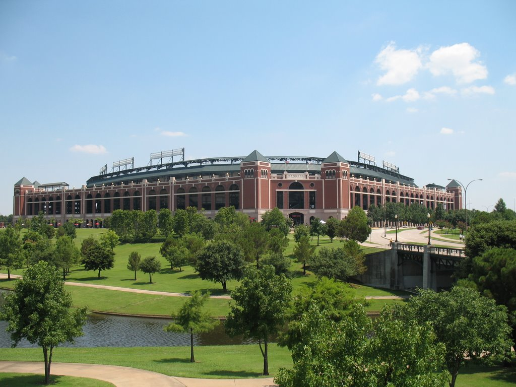 Home Plate Entrance of Rangers Ballpark in Arlington, taken from the kid's ballpark next door, looking up from Nolan Ryan Expressway.